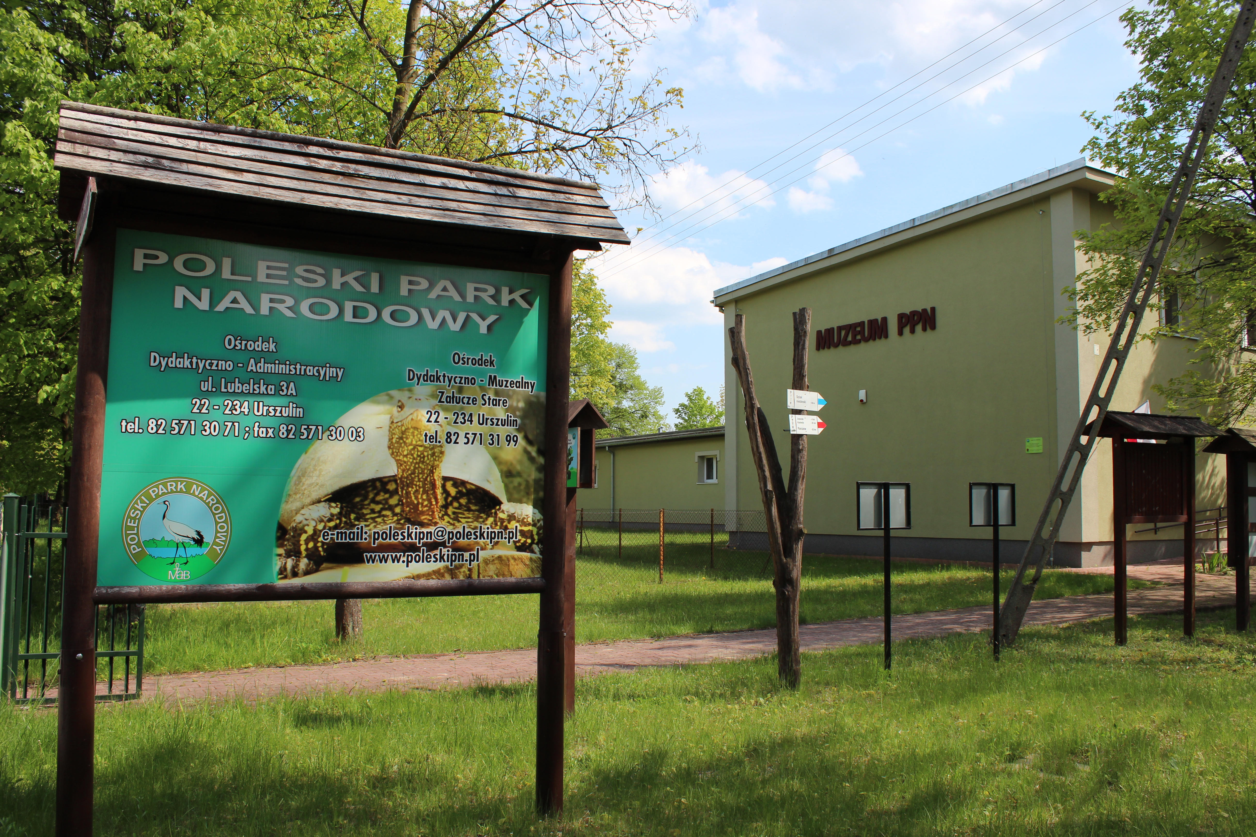 Polesie National Park Educational Center and Museum - Stare Załucze